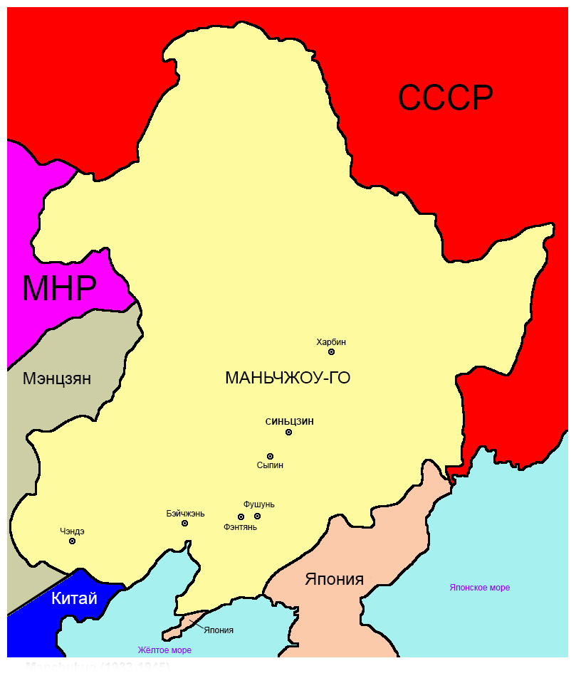 Map of Manchukuo in Russian